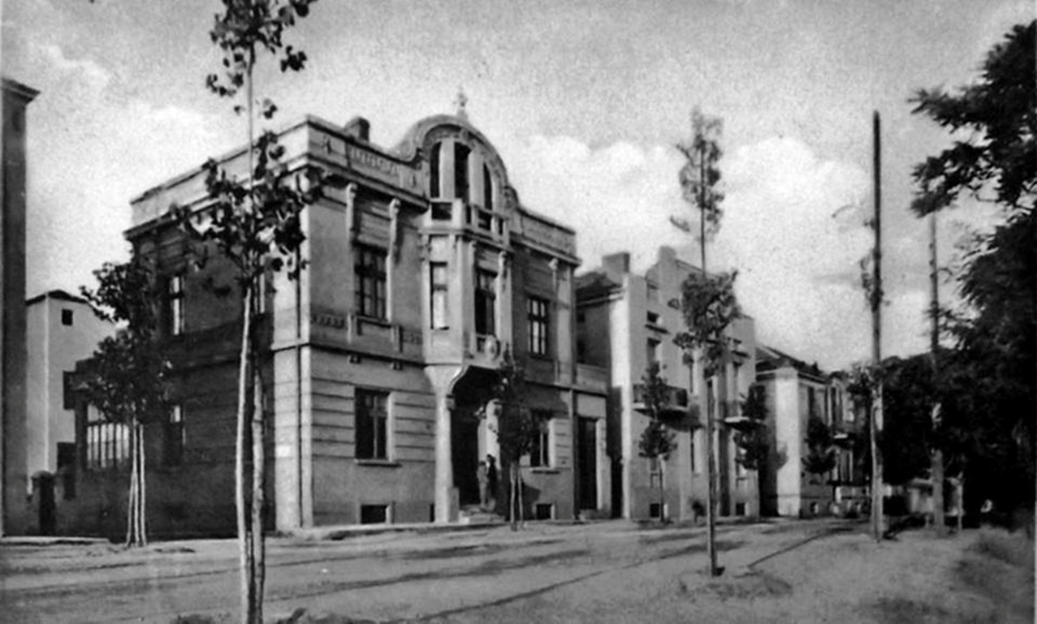 Great Medresa of King Alexander in Shkup/Skopje